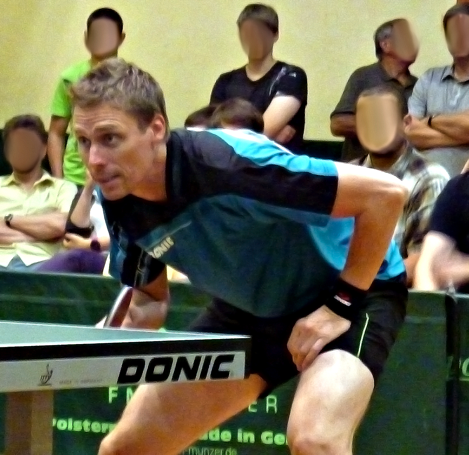 Table Tennis Player Jörgen Persson (2013)